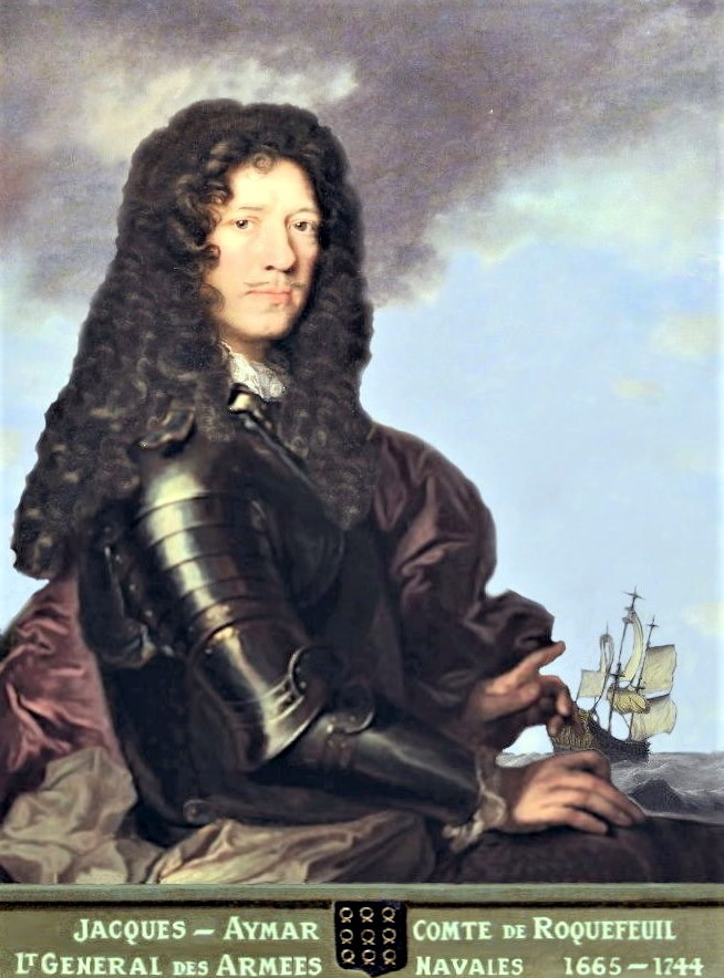 French admiral Jacques Aymar comte de Roquefeuil lieutenant général of the French Royal Navy in the Atlantic- 1665-1744